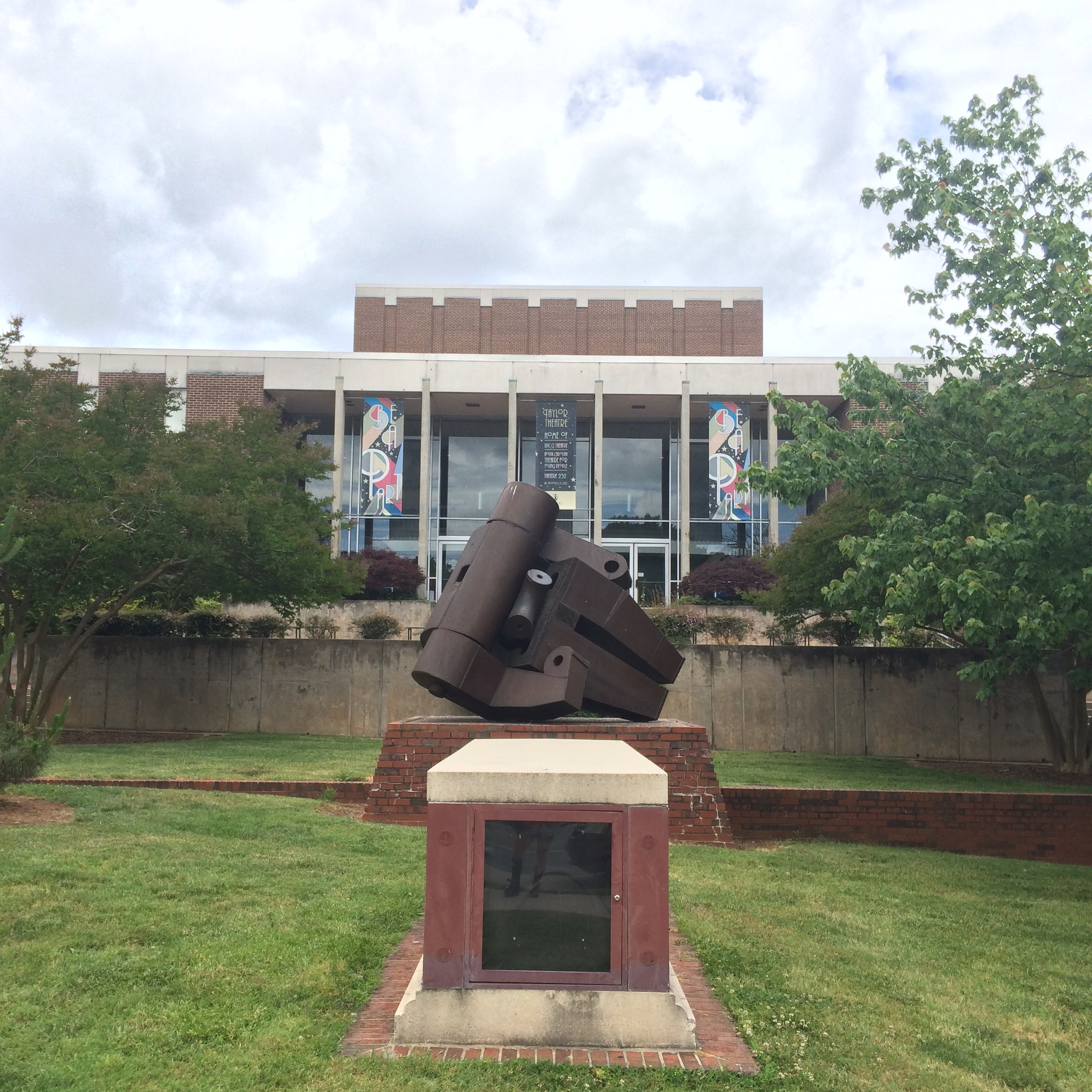 Taylor Theatre at the University of North Carolina at Greensboro